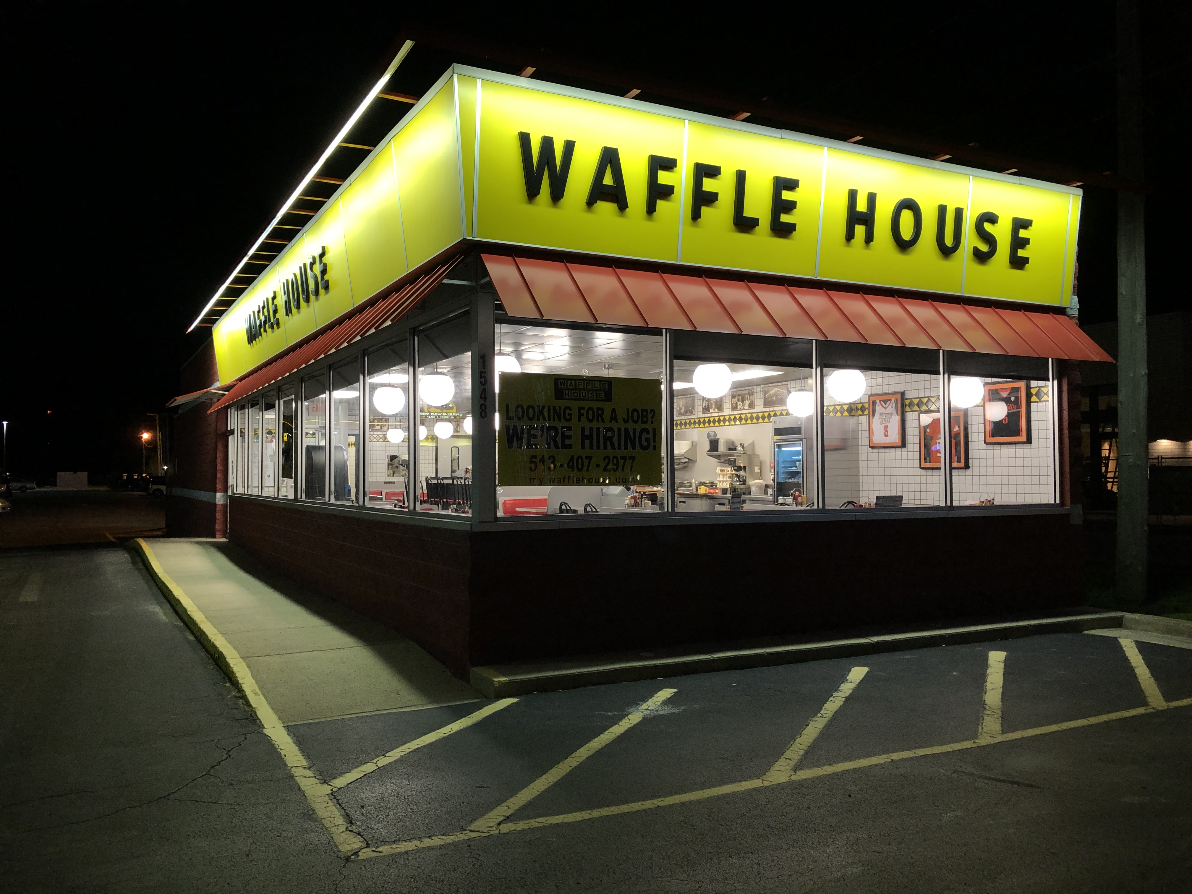 One of the northernmost Waffle Houses (Outside Cleveland and Toledo), in Bowling Green Ohio.